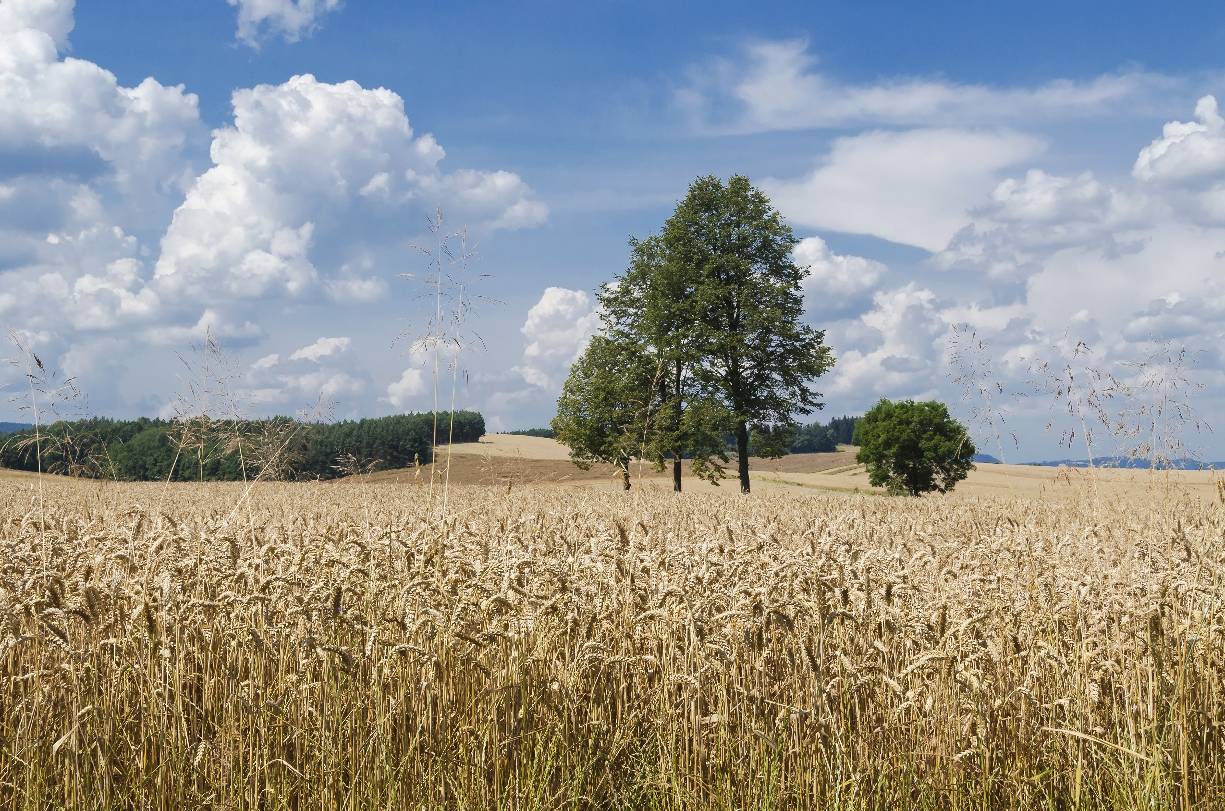 Field crops in Raszków